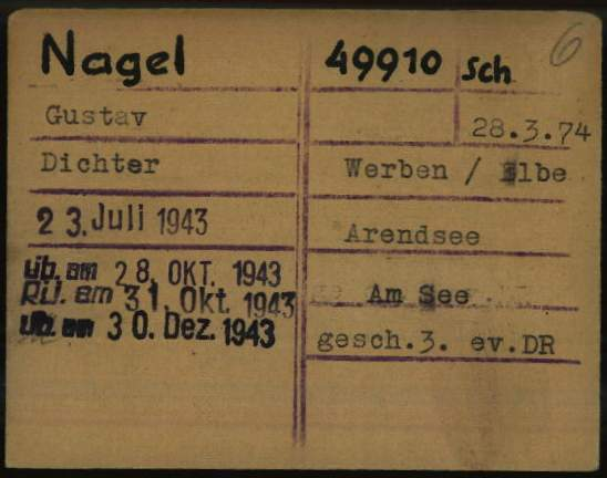 Registration card of Gustav Nagel as a prisoner at Dachau Nazi Concentration Camp